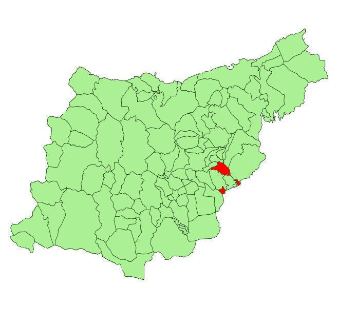 Gaztelu municipality in the province of Guipuzcoa